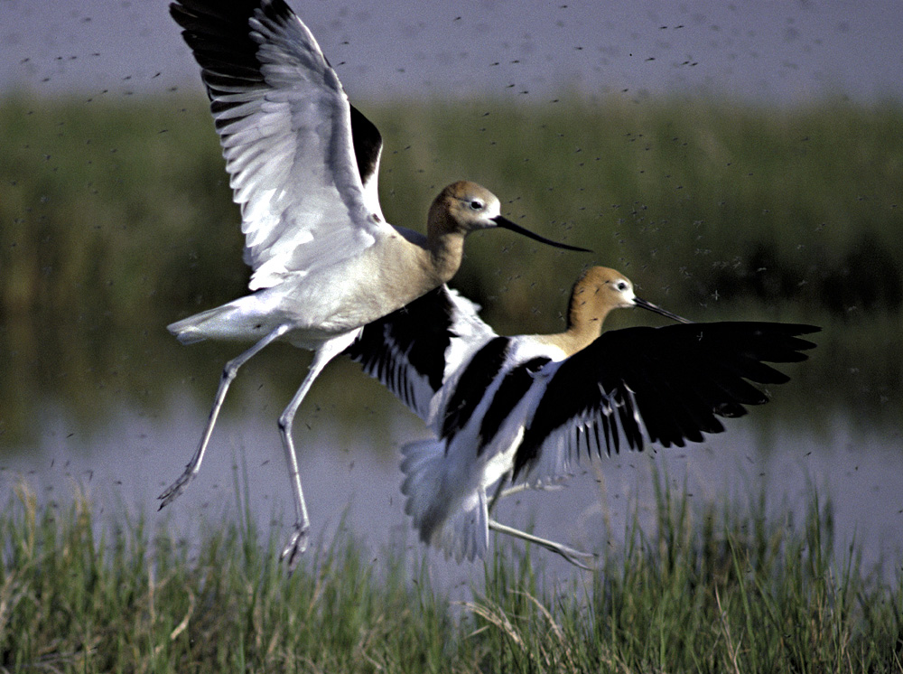 American Avocets (Recurvirostra americana) at Bear River Migratory Bird Refuge, Great Salt Lake, Utah